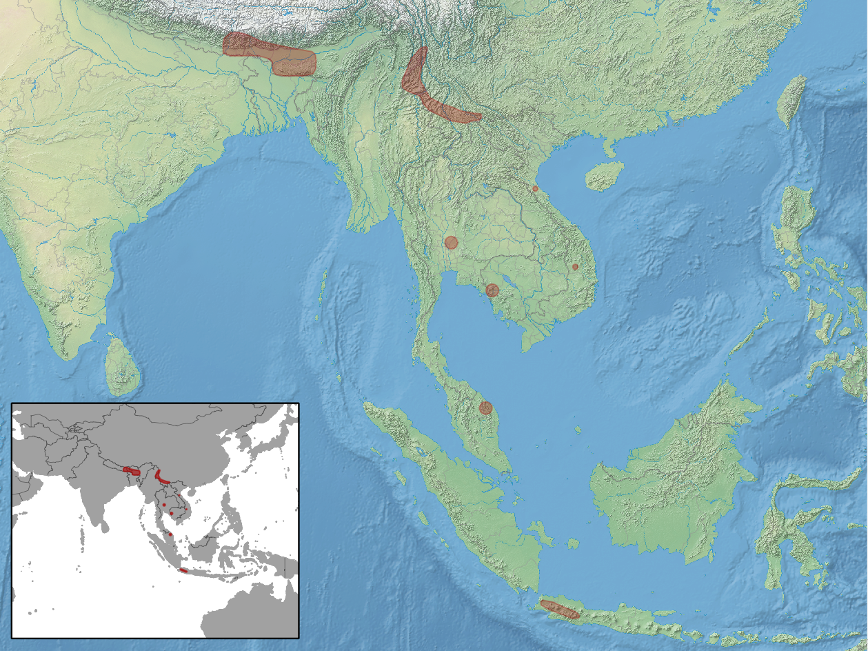 geographic distribution of Arielulus circumdatus